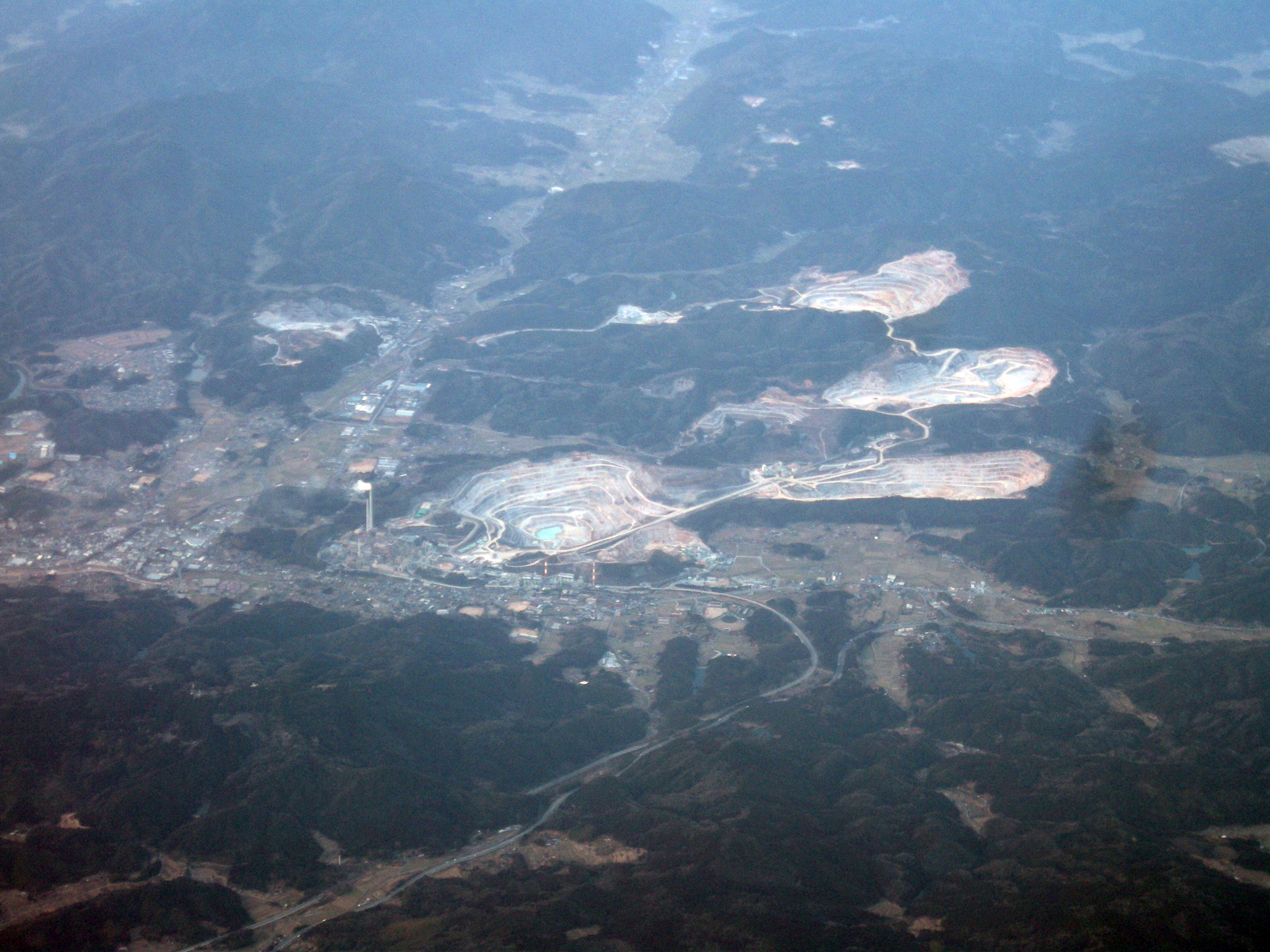 UBE Isa mine in Mine city, Yamaguchi prefecture, Japan.